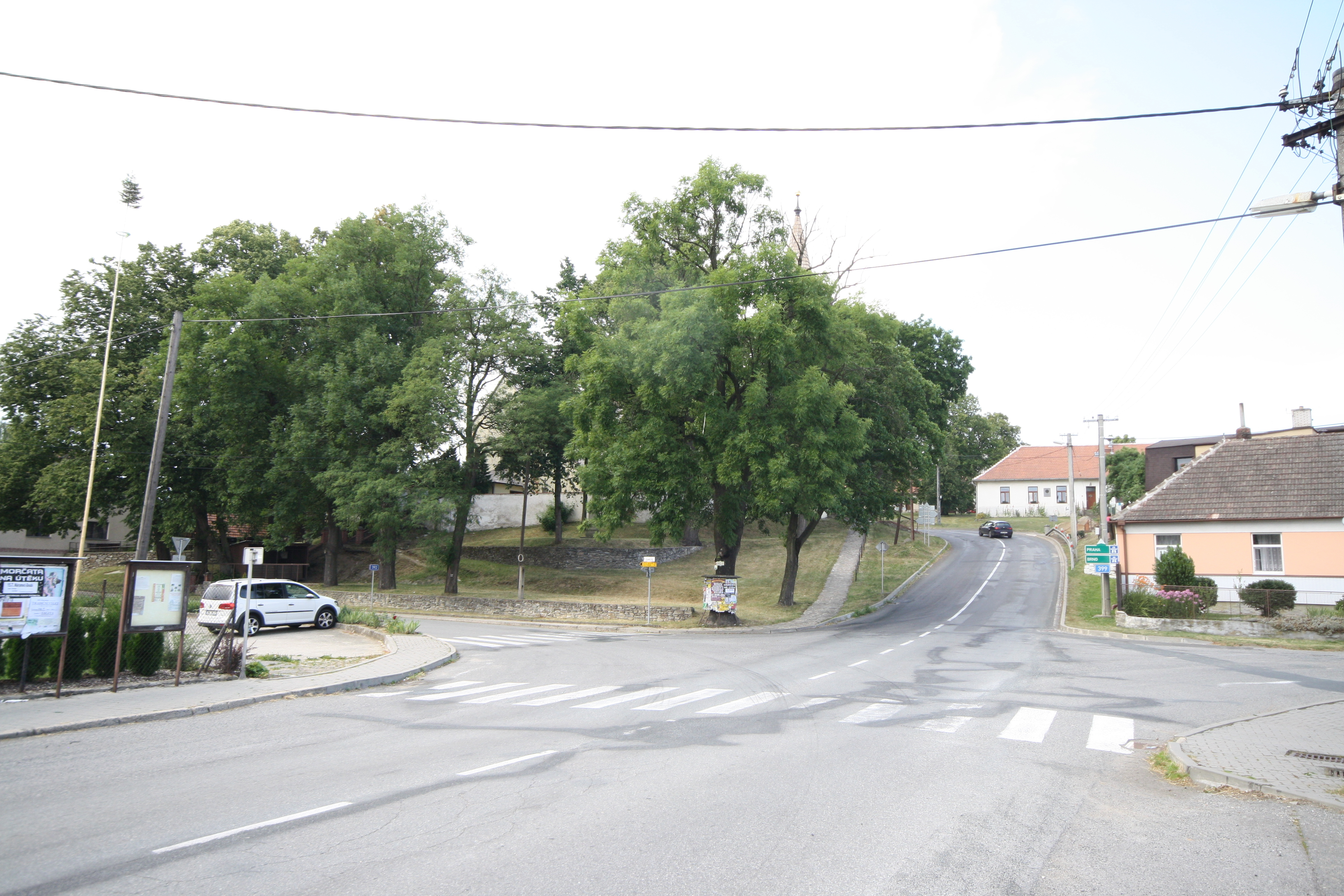 Center of Jinošov, Třebíč District.